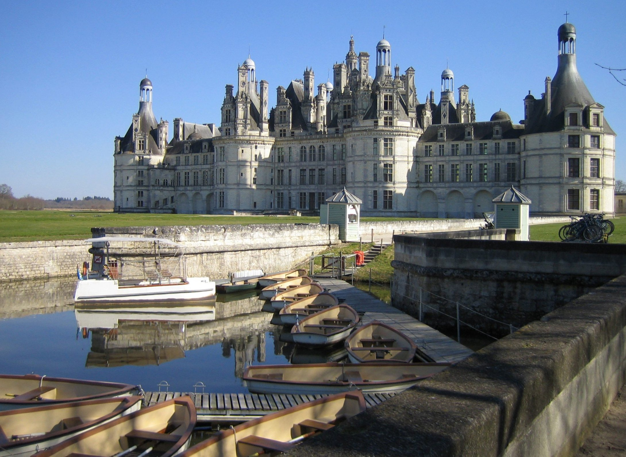 Château de Chambord - France Author: Raph Date: 19 March 2005